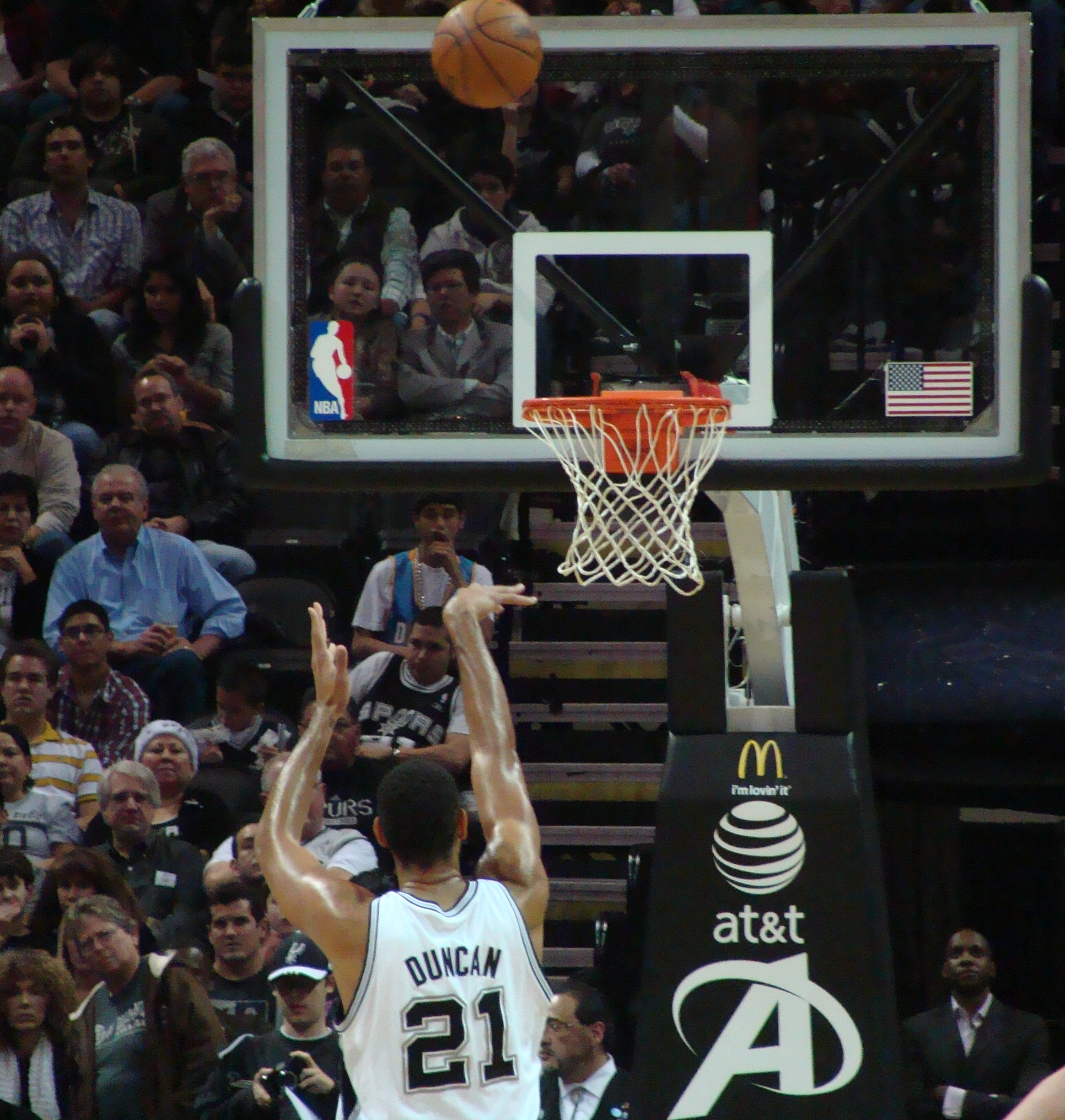 Tim Duncan of the San Antonio Spurs, during a free throw at the Spurs-Nuggets match on 12-22-2010 in San Antonio, TX.